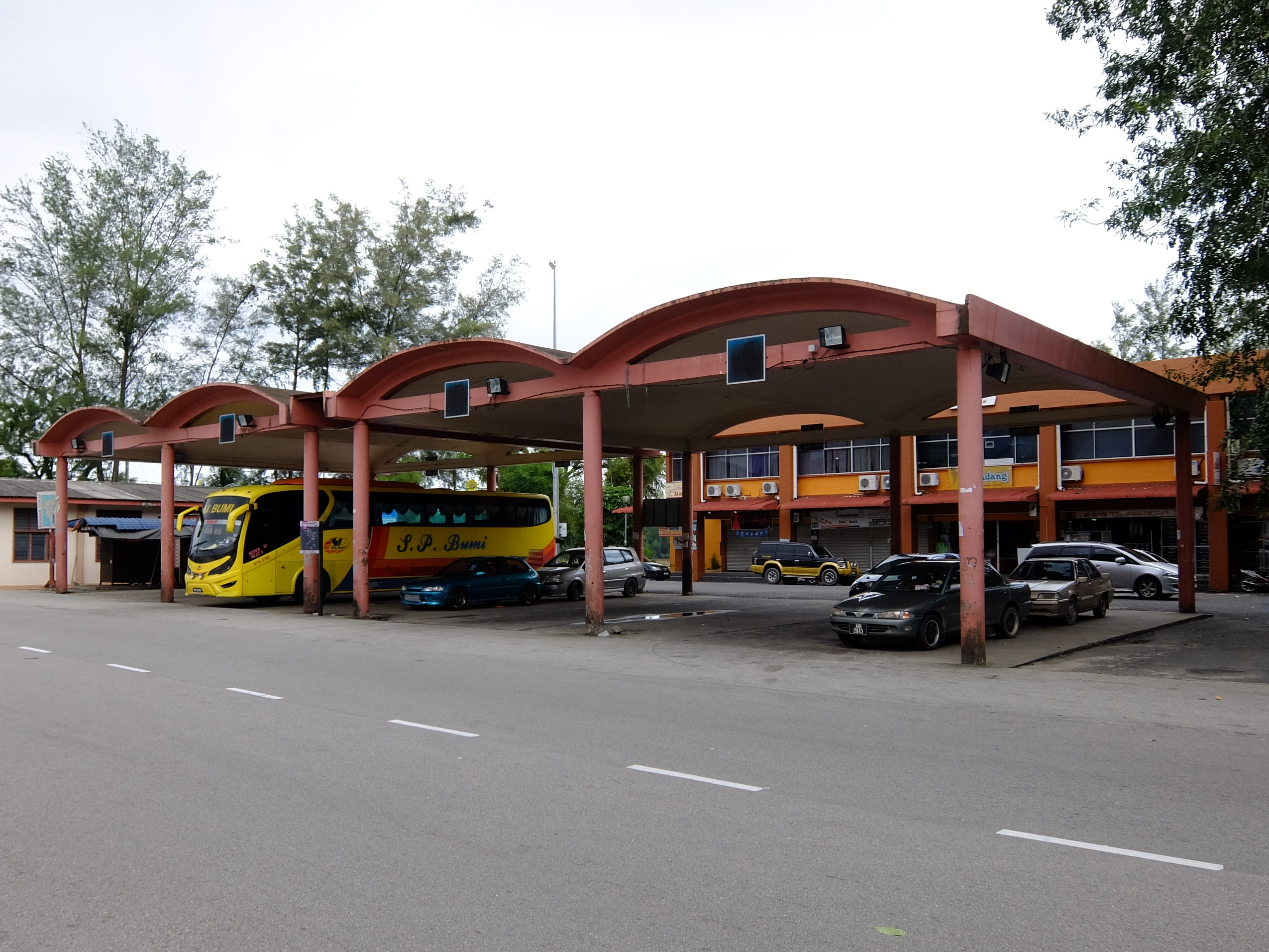 Chukai Bus Station, Chukai, Kemaman, Terengganu, Malaysia